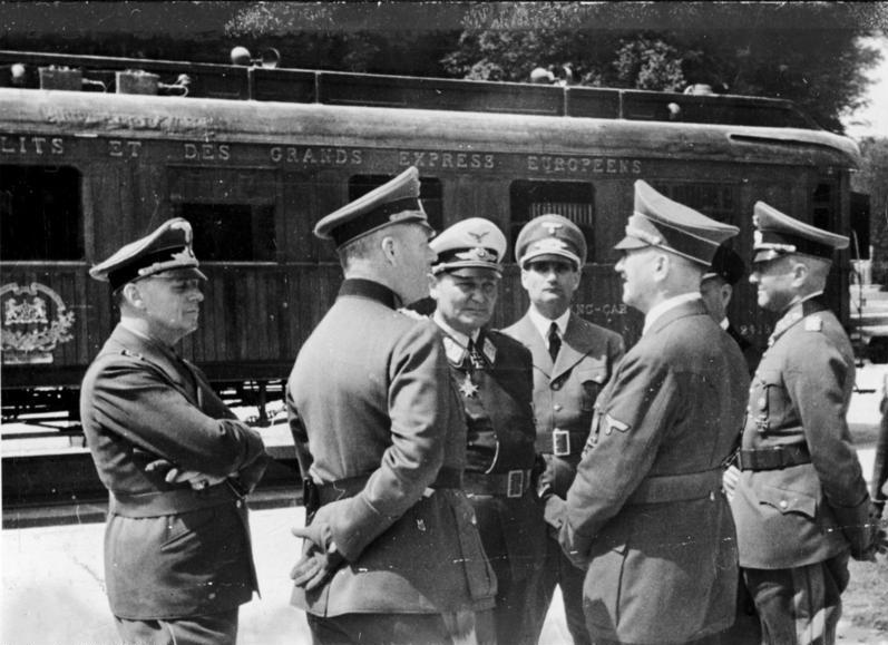 21 June 1940, Hitler speaks with high-ranked Nazis and Generals before the 1918 Wagon de l'Armistice in the Compiègne forest, before launching the negotiations of the 1940 Armistice, which will be signed the next day.